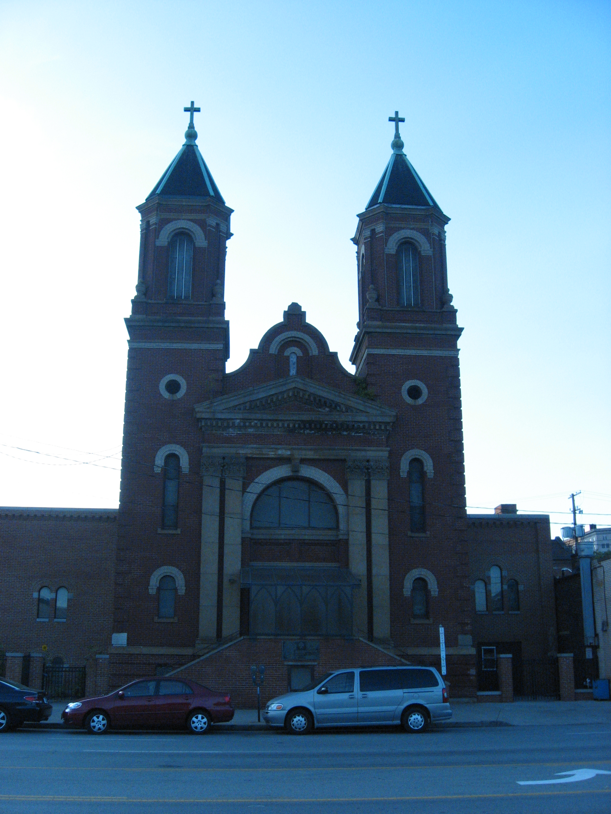 Streetside view of St. Maron's Catholic Church in Cleveland, a Maronite church located at 1245 Carnegie Avenue in Cleveland, Ohio, United States. Church website